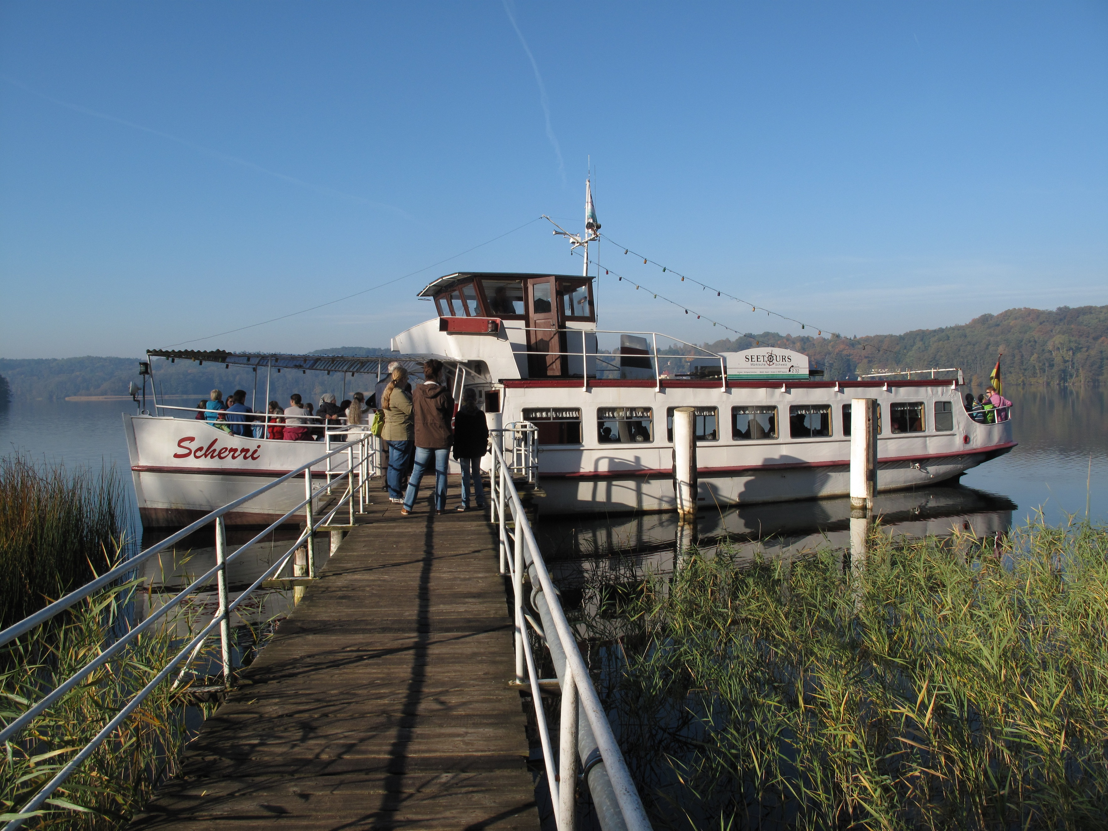 Landing stage at the eastern shore of the Schermützelsee. The passenger ship „MS Scherri“ was built in 1879 by the Reiherstiegwerft in Hamburg. First named „Reiher“ the ship started up on the Alster. On the Schermützelsee it is in operation since 1992. The Schermützelsee is a lake in Buckow, District Märkisch-Oderland, Brandenburg, Germany. The lake covers 137 hectare and is the largest water in the hill country „Märkische Schweiz“ and in the Märkische Schweiz Nature Park.